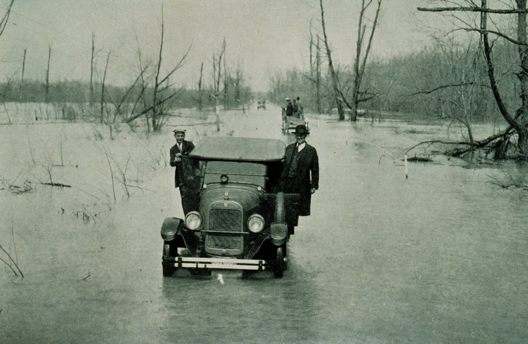 The Great Mississippi Flood of 1927, U.S. Route 51 between Mounds, Illinois, and Cairo, Illinois. River stage at Cairo, 52.8 feet. From "The Floods of 1927 in the Mississippi Basin", Frankenfeld, H.C., 1927 Monthly Weather Review Supplement No. 29.